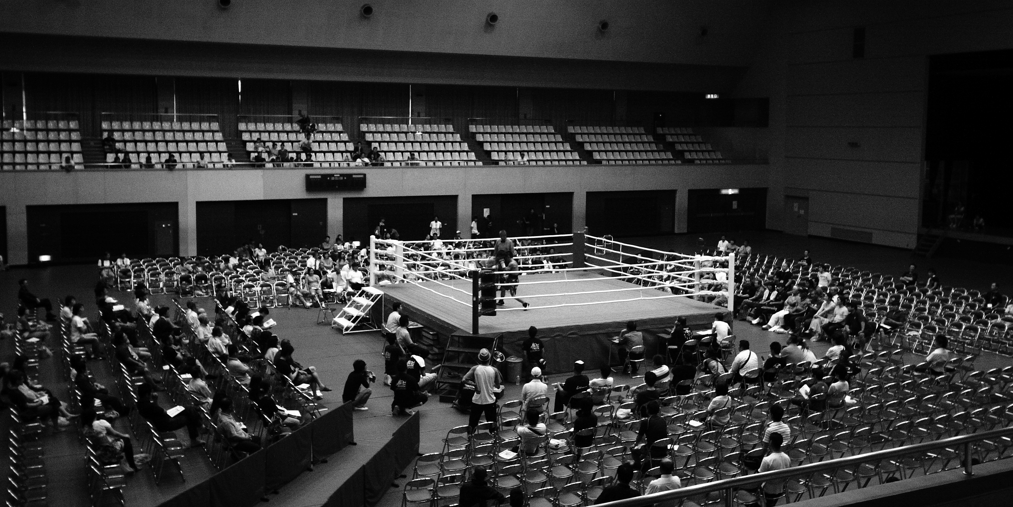 The photo shows a scene from a final match of the annual Japanese boxing series "Rookie King Tournament of the Western Part of Japan", held at the Miyazaki City Gymnasium on August 14, 2011.